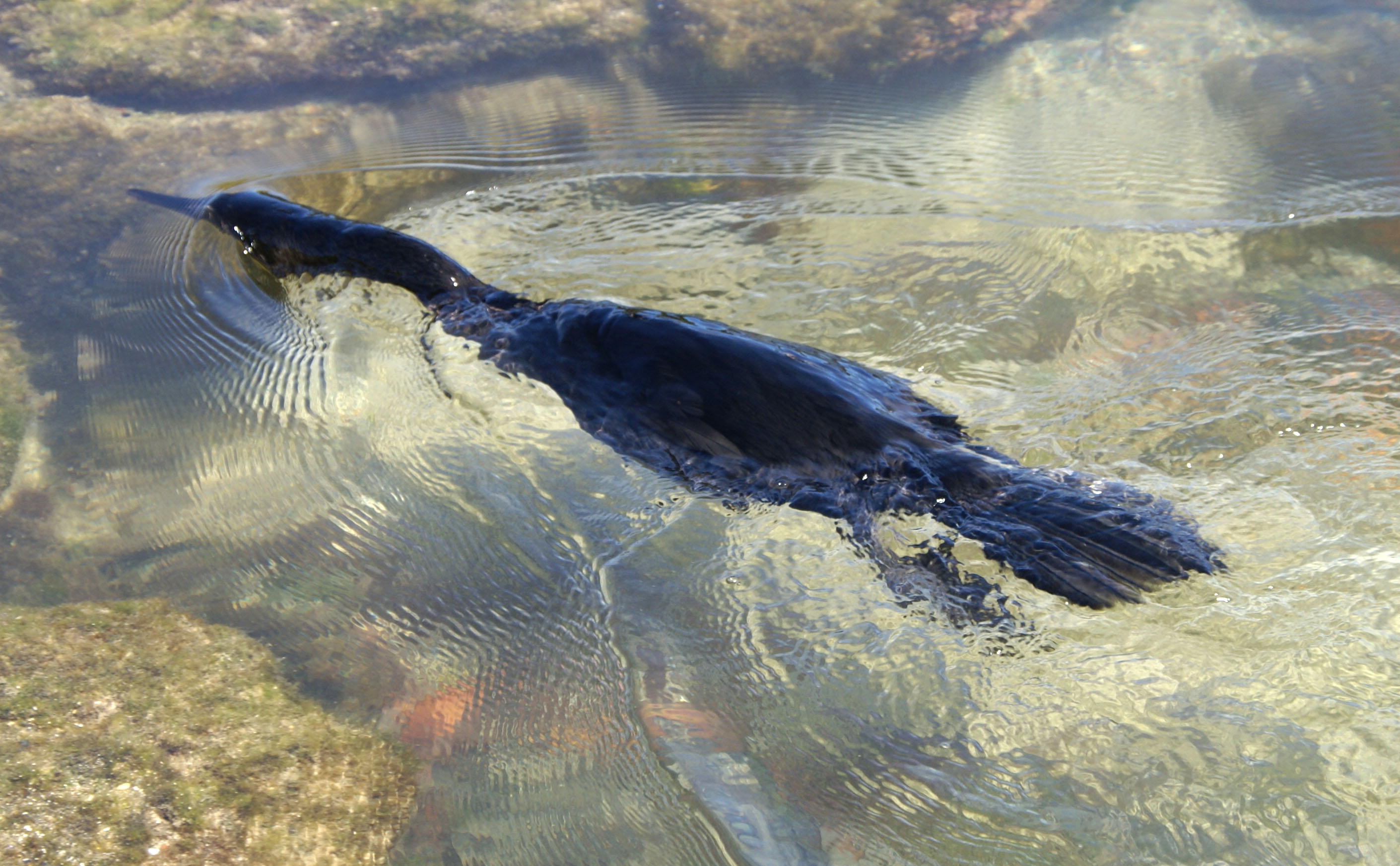 Flightless Cormorant (Phalacrocorax harrisi), also known as the Galapagos Cormorant showing it swimming.